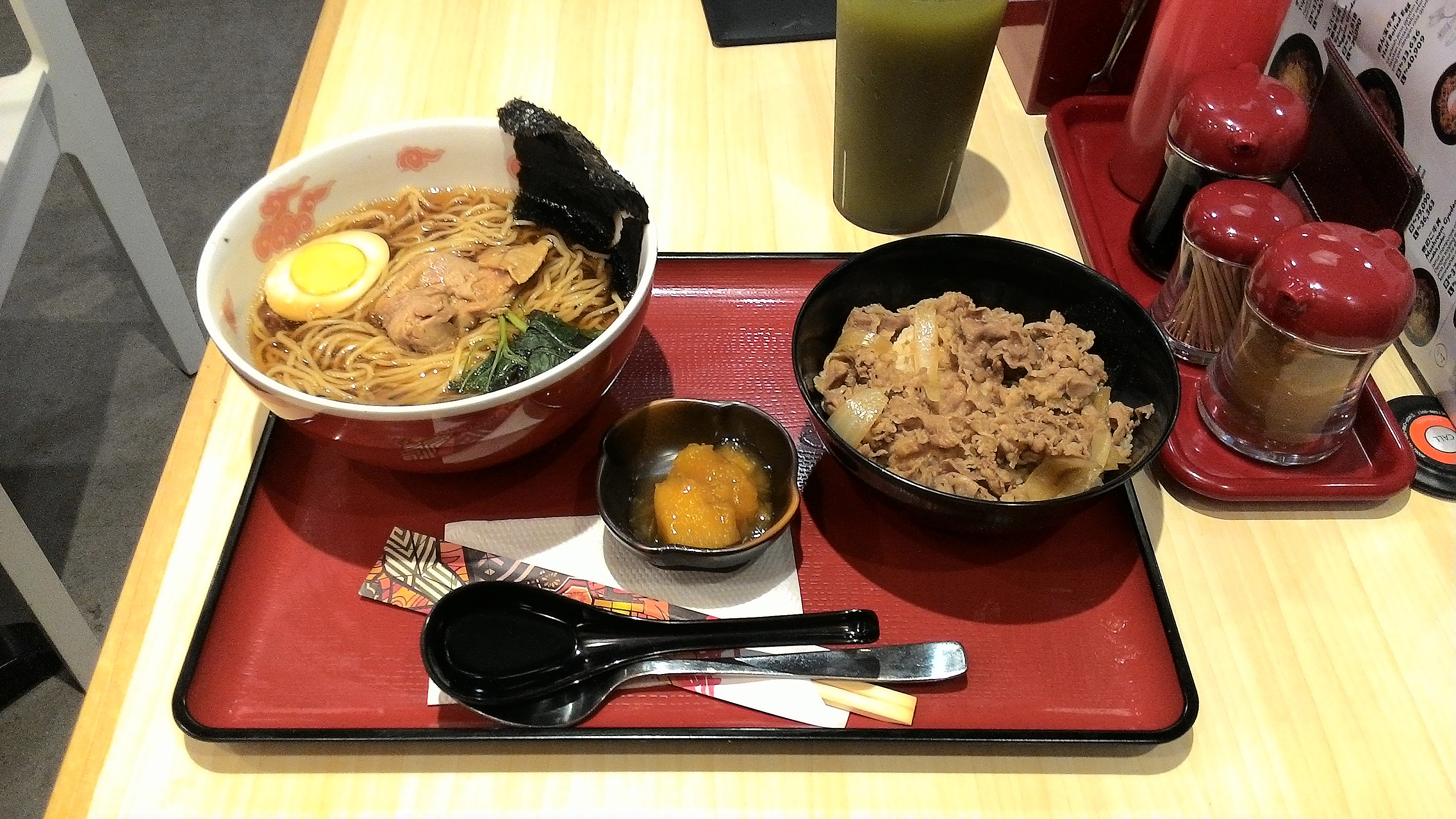 Niku shoyu Ramen (beef soy ramen) and Gyudon (beef rice bowl) Combo, in Sukiya Restaurant, Atrium Senen, Central Jakarta, Indonesia.